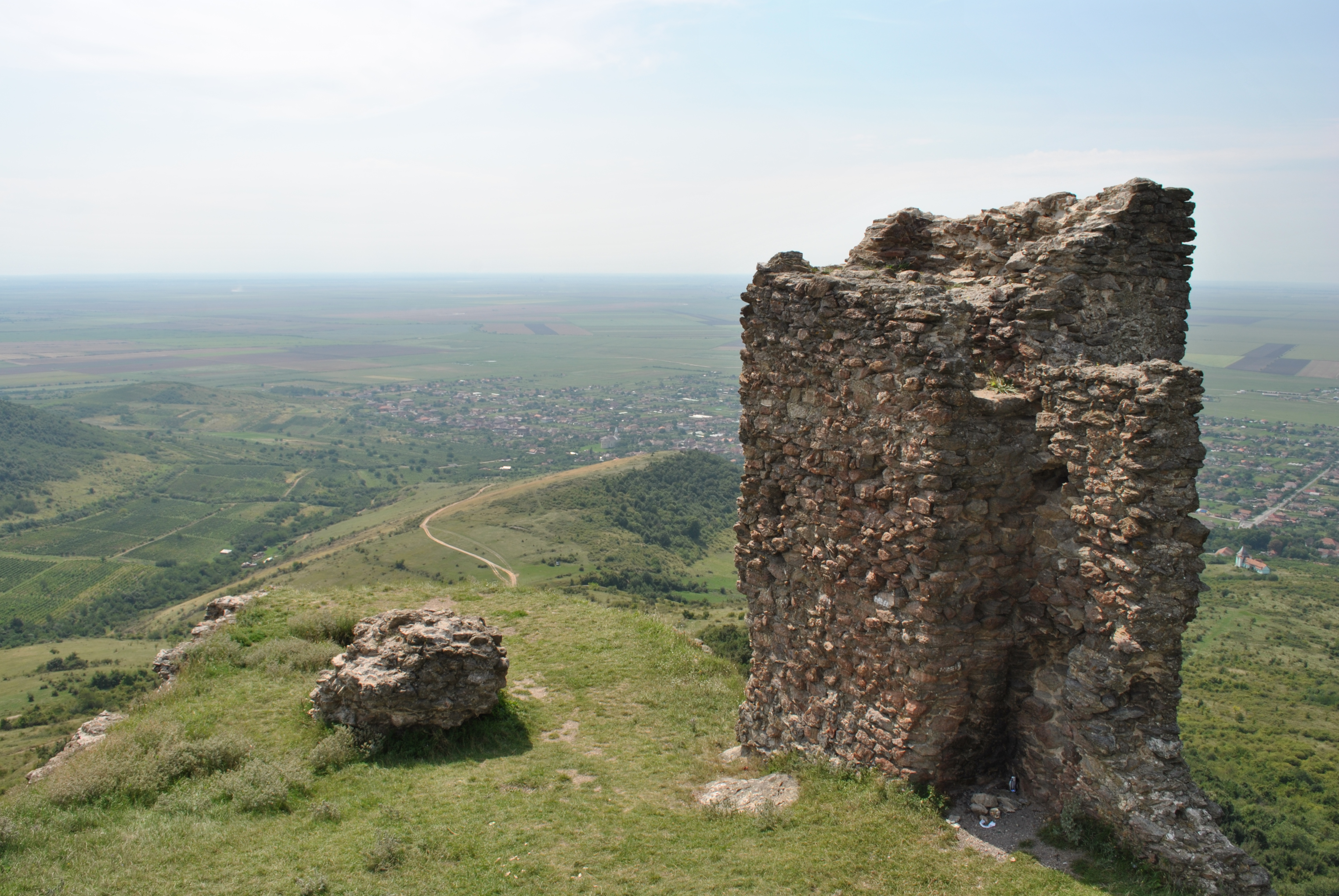 Cetatea Șiria (ruine)